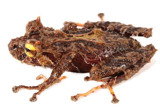 P. colonensis, QCAZ 53318, adult female, SVL = 28.8 mm